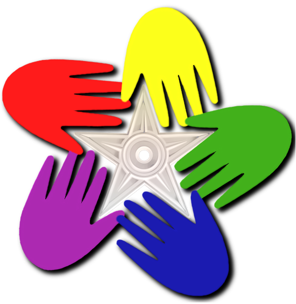 Anti-bullying barnstar